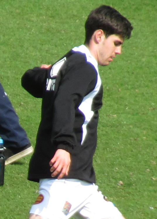 Pictured during the 2-2 draw between Port Vale and Northampton Town on 20 April 2013.